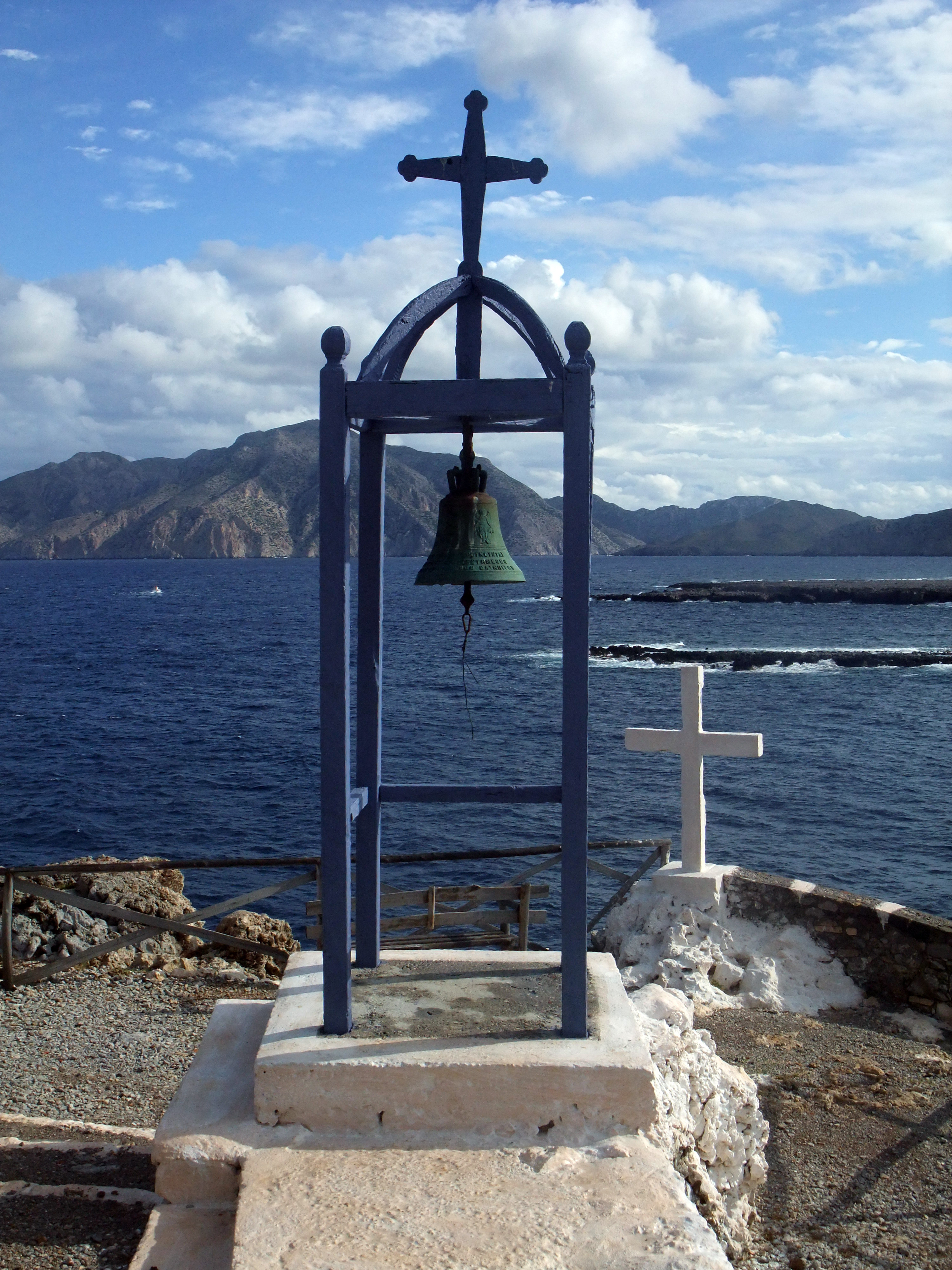 Christian cross and bell, bay of Wurgúnda, Karpathos, Greek Dodecanese islands